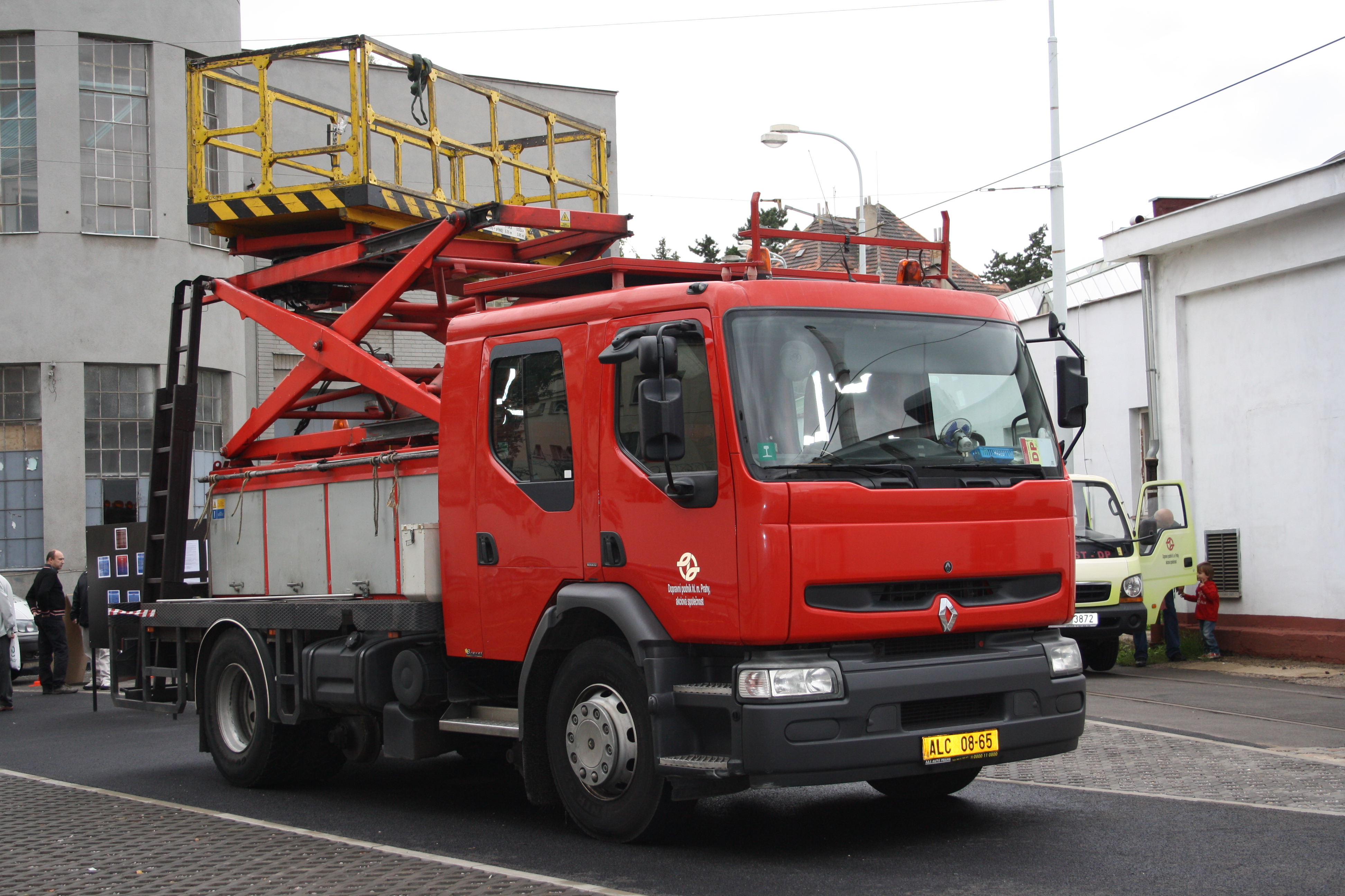 Tower truck